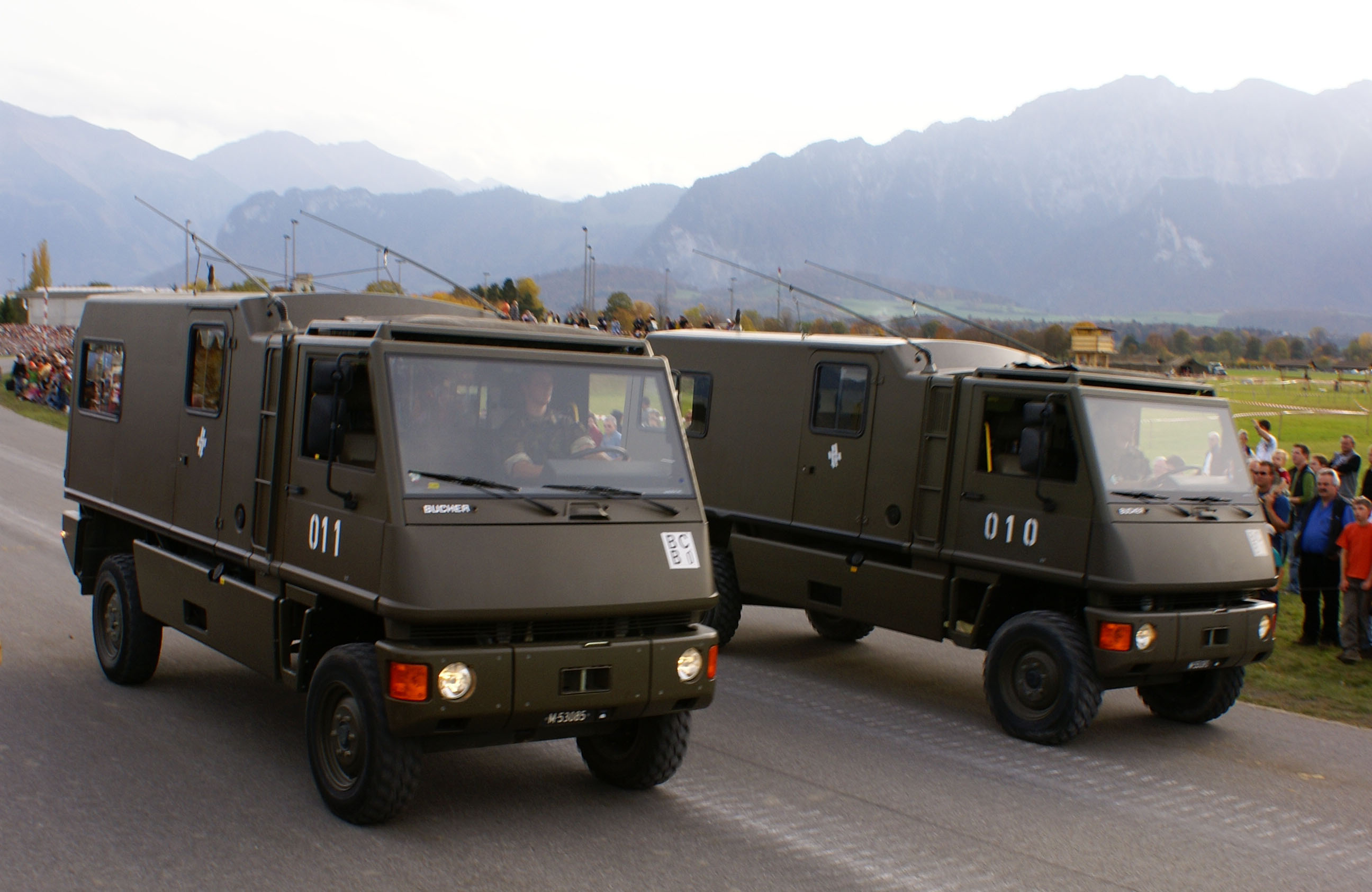 Swiss Army. Mowag DURO multipurpose vehicle, hardtop command variant. Participating in the "Steel Parade" of the 2006 Army Days, Thun.